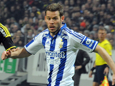 IFK Göteborg